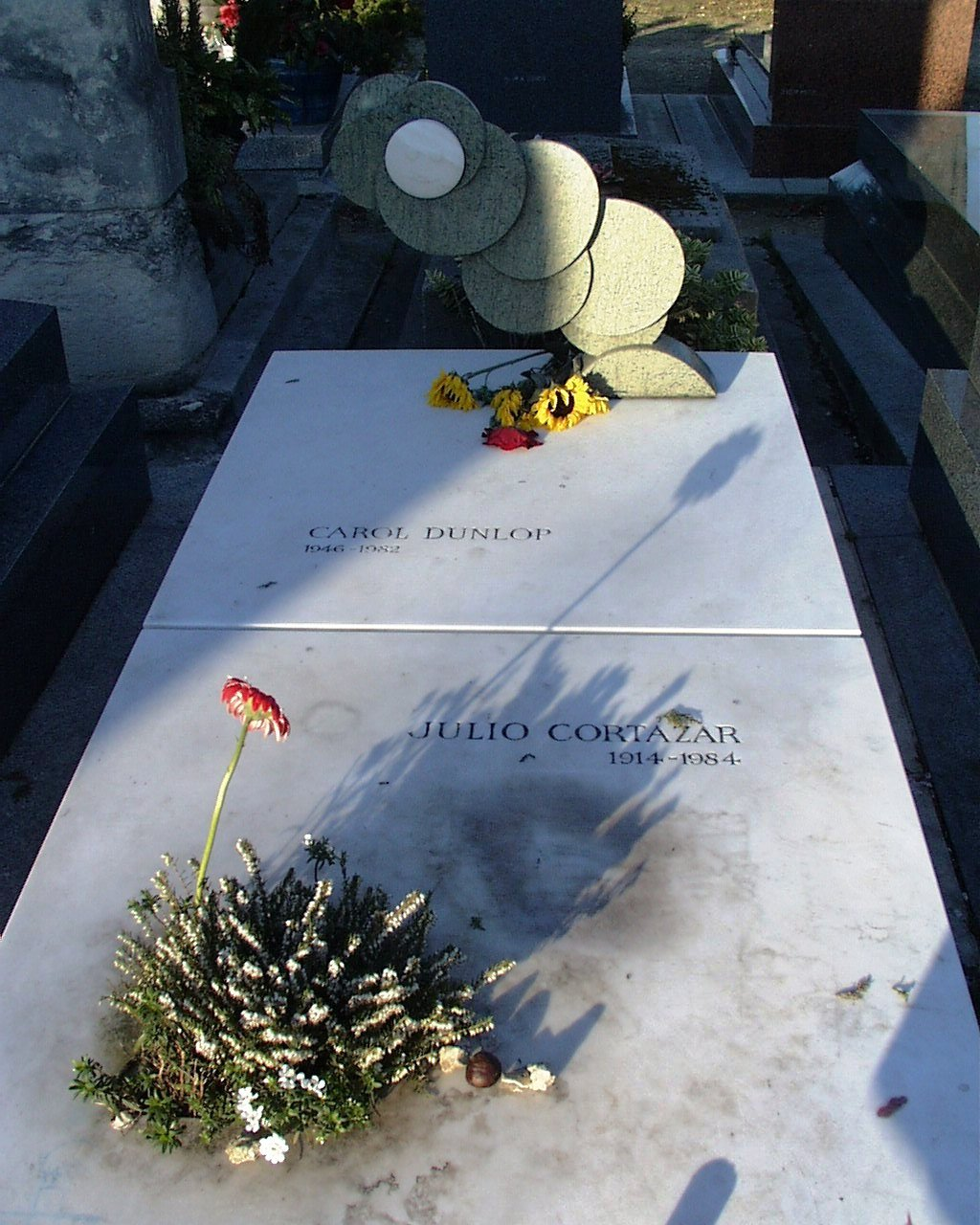 Cortázar's gravestone at Montparnasse Cemetery, Paris.